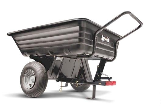 Agri-Fab Poly Cart wheelbarrow